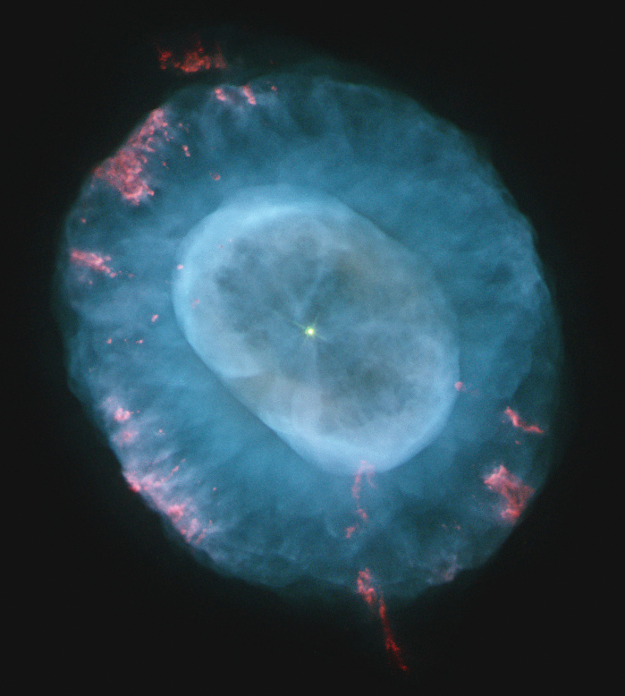 I'm struggling to find anything to say about this one. It's pretty. Here's a link to its Wikipedia article . Red: hst_08390_11_wfpc2_f658n_pc_sci+hst_11122_18_wfpc2_f658n_pc_sci Green: hst_08390_11_wfpc2_f555w_pc_sci Blue: hst_08390_11_wfpc2_f502n_pc_sci+hst_11122_18_wfpc2_f502n_pc_sci North is up